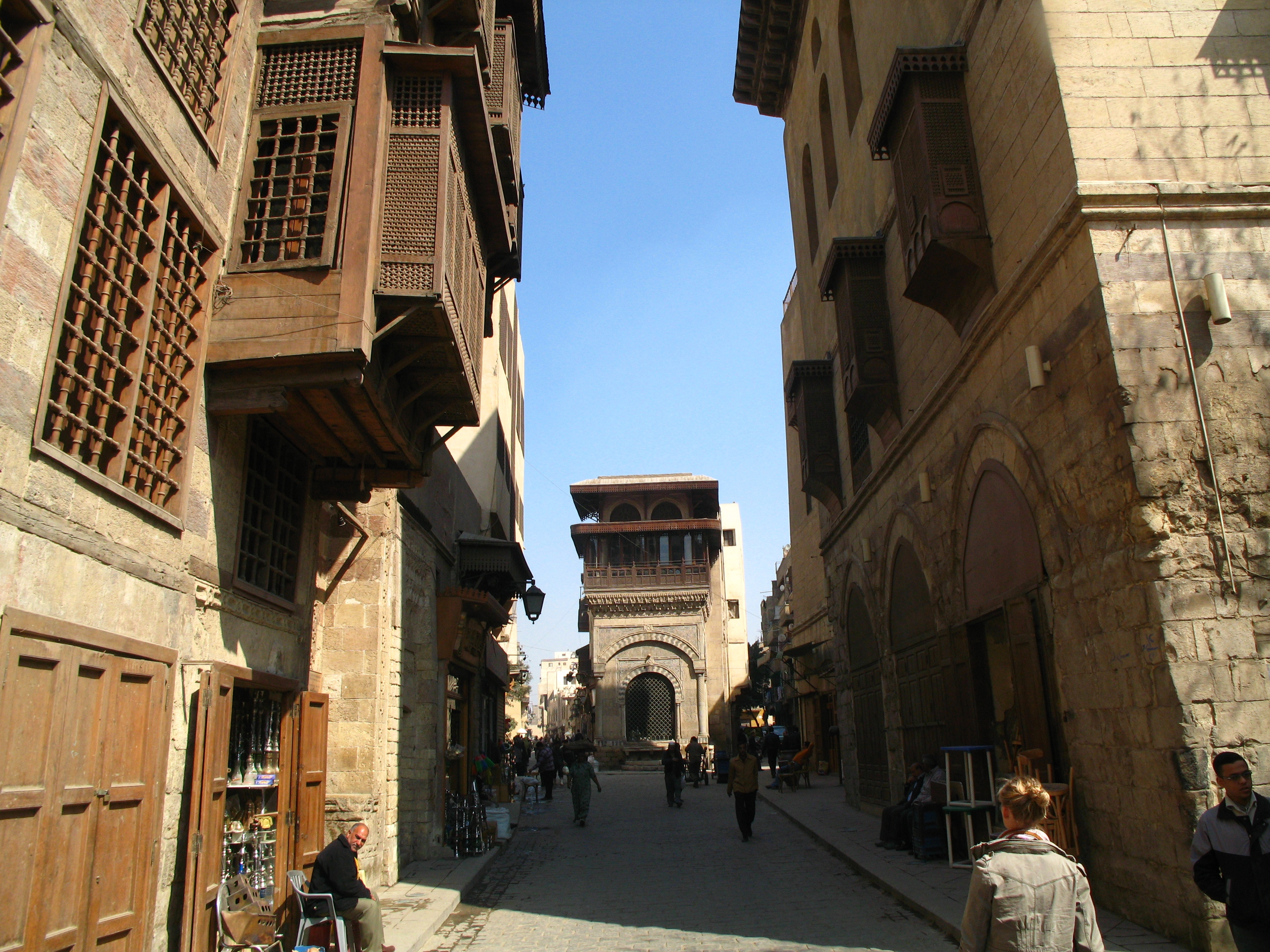 Muizz Street in the old Islamic Cairo district. Mashrabiya (wooden grilles) on balcony windows. The Sabil of Abd al-Rahman Katkhuda is in backround.